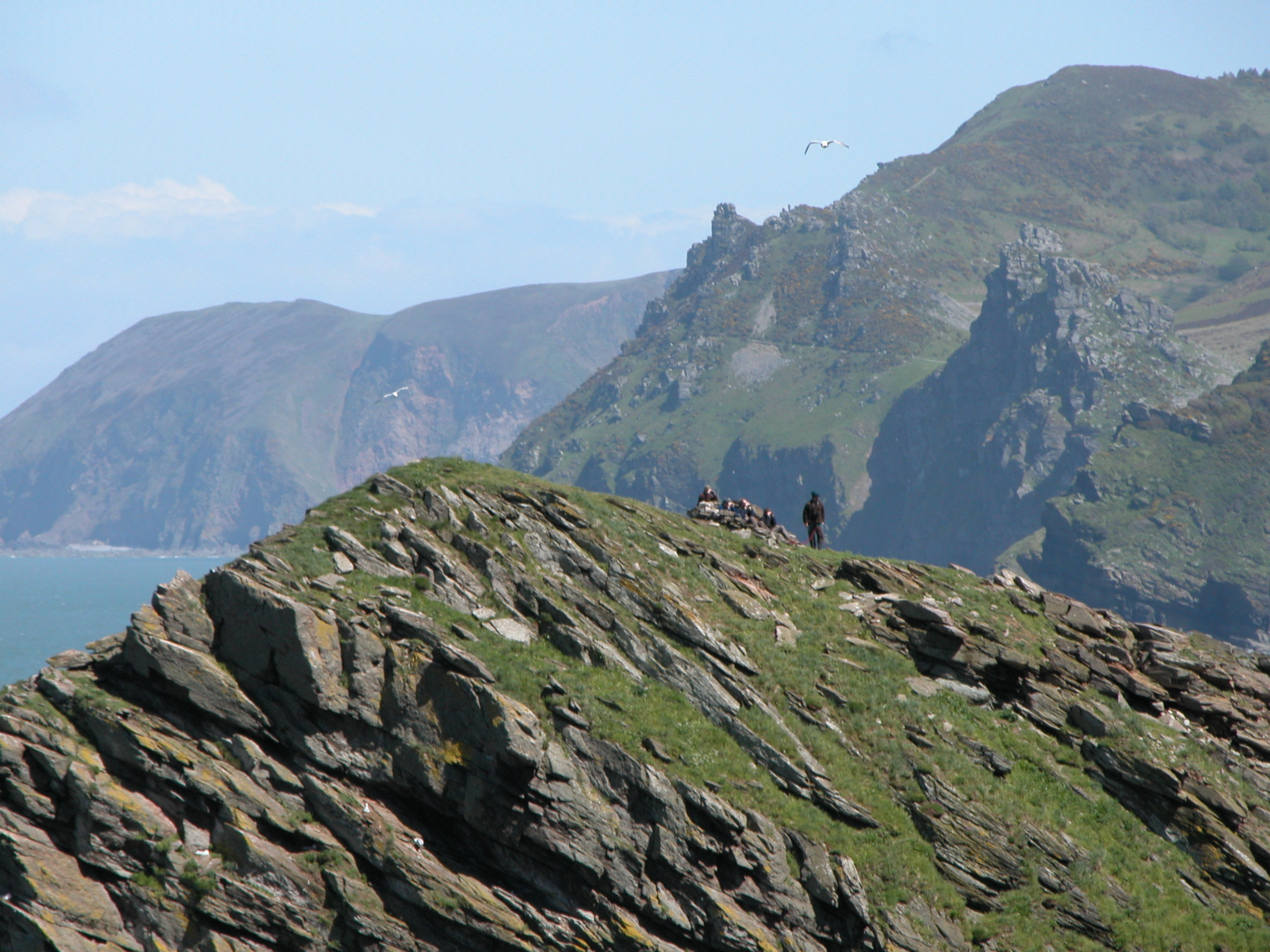 Exmoor coastline. Photo taken from The Diagonal Route above Big Bluff. Bird count group stood on Wringapeak. Valley of Rocks in the middle distance. Foreland Point far distance. Photo taken by Terry Cheek.